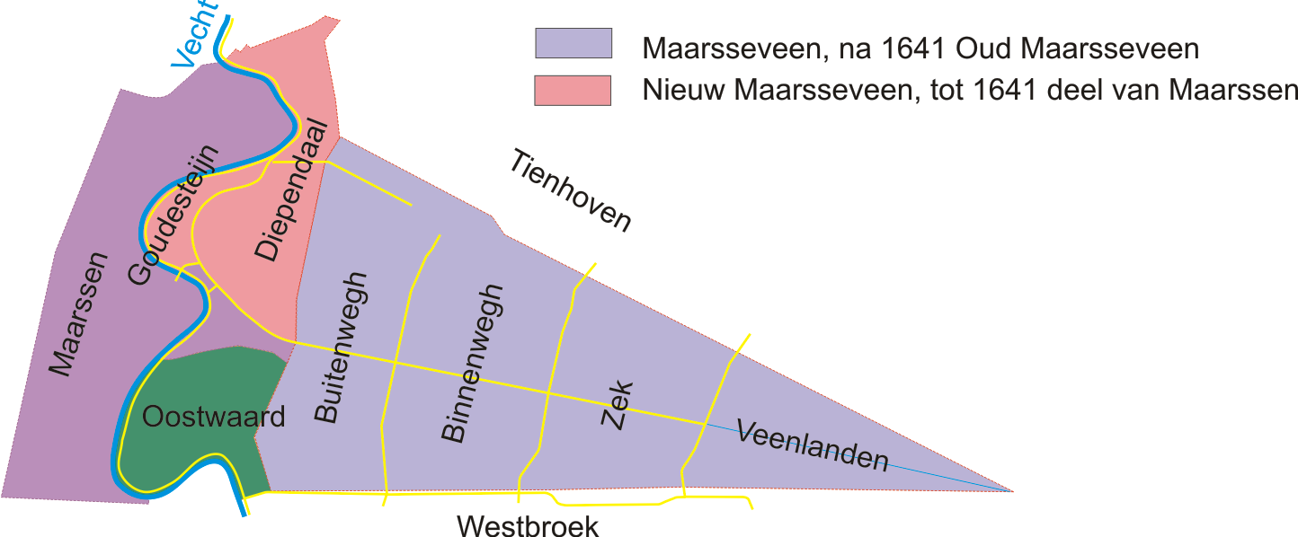 map pf the former community of Nieuw-Maarsseveen in the province of Utrecht